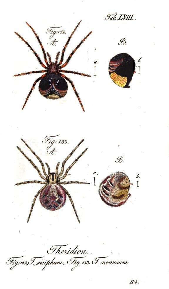 Fig. 132: Theridion sisyphum (Clerck) sensu C. W. Hahn 1834 = Theridion sisyphium (Clerck, 1757), A=dorsal view, B=lateral view; Fig. 133: Theridion nervosum Walk. sensu C. W. Hahn 1834 = Theridion sisyphium (Clerck, 1757), A=dorsal view, B=lateral view